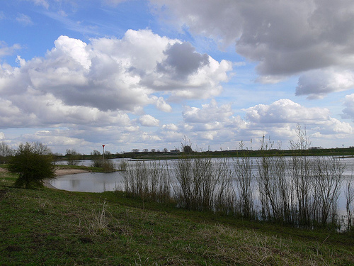 The Rhine as seen at Wageningen in The Nederlands.